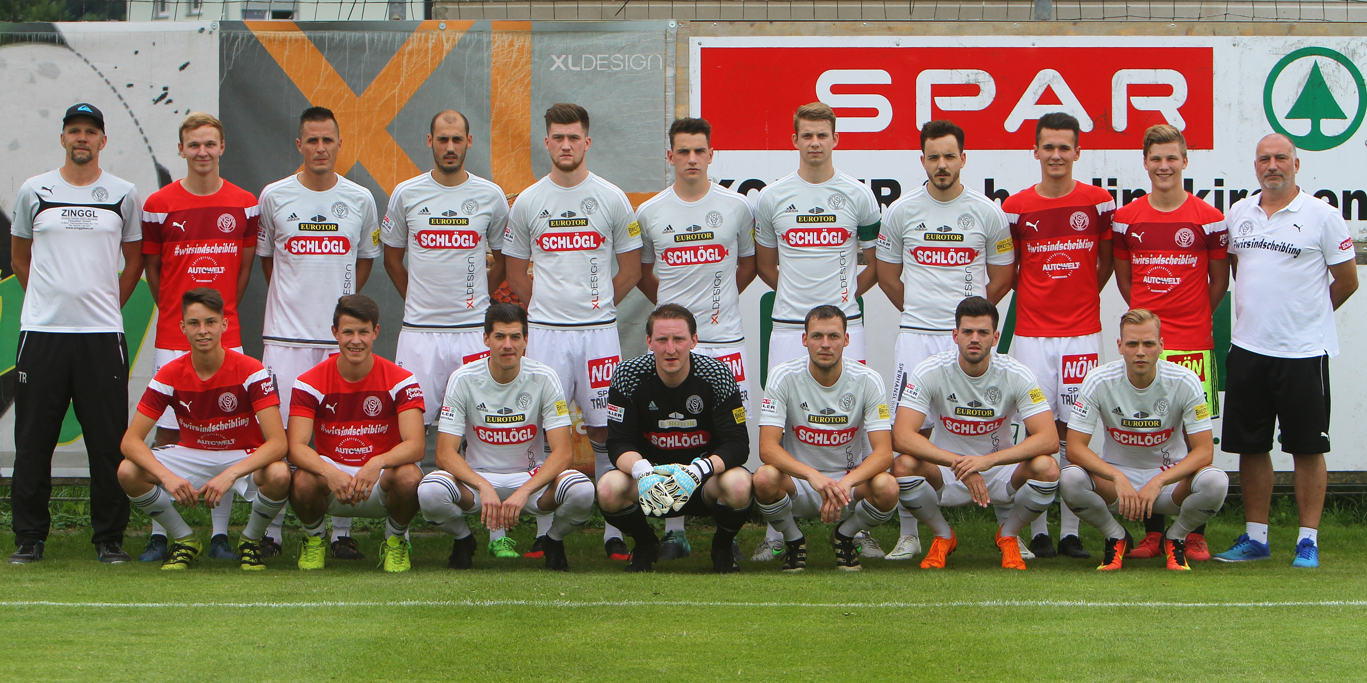 Final of the Lower Austrian Footballcup USV Scheiblingkirchen-Warth (grey shirts) vs. USC Rohbach/Gölsen (red shirts) in the "Pittentalstadion" in Scheiblingkirchen. – The photo shows the team of Rohbach/Gölsen.